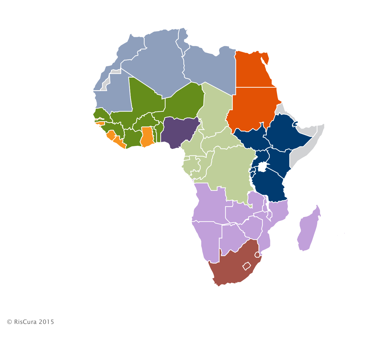 Investment division of Africa